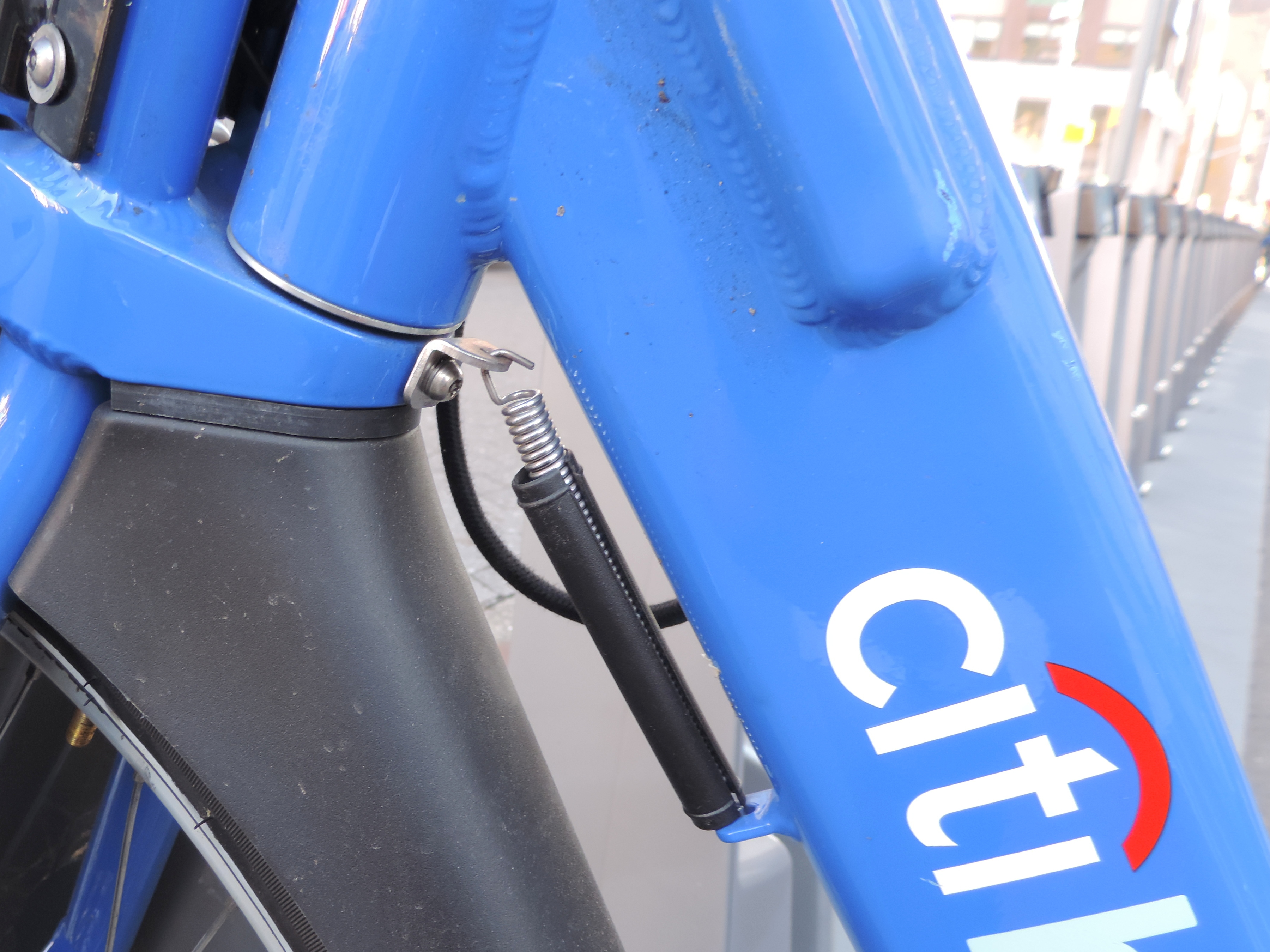 Looking west at spring that helps return the handlebar to center.